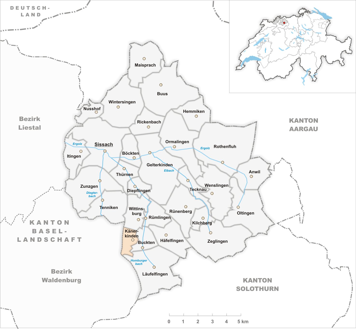 Municipality Känerkinden